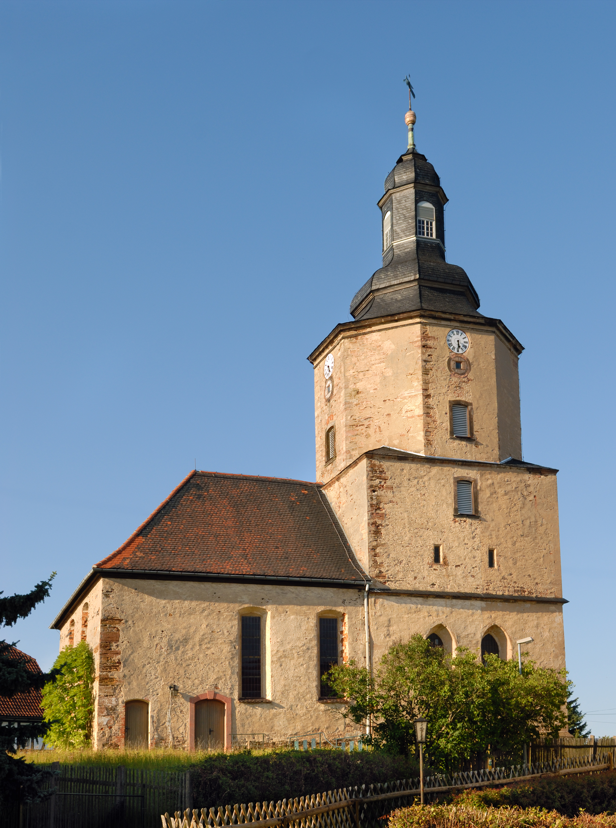 This image shows the church in Paitzdorf, Germany.